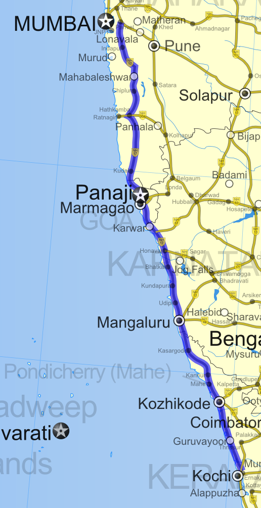 National Highway 17 in India